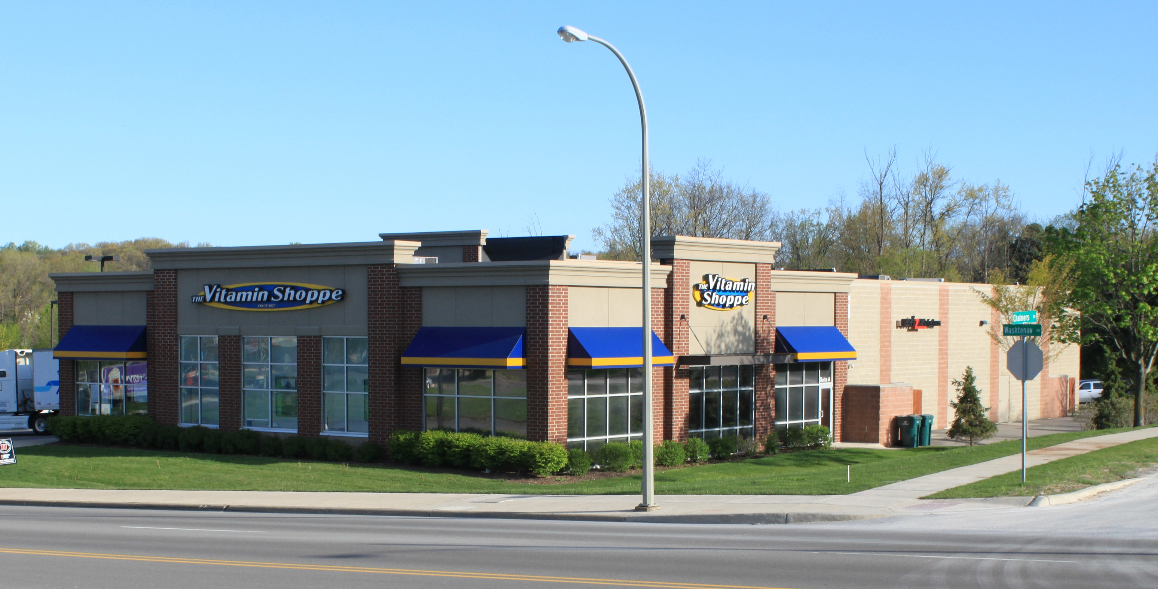 Vitamin Shoppe store, 3365 Washtenaw, Ave., Ann Arbor, MI 48104